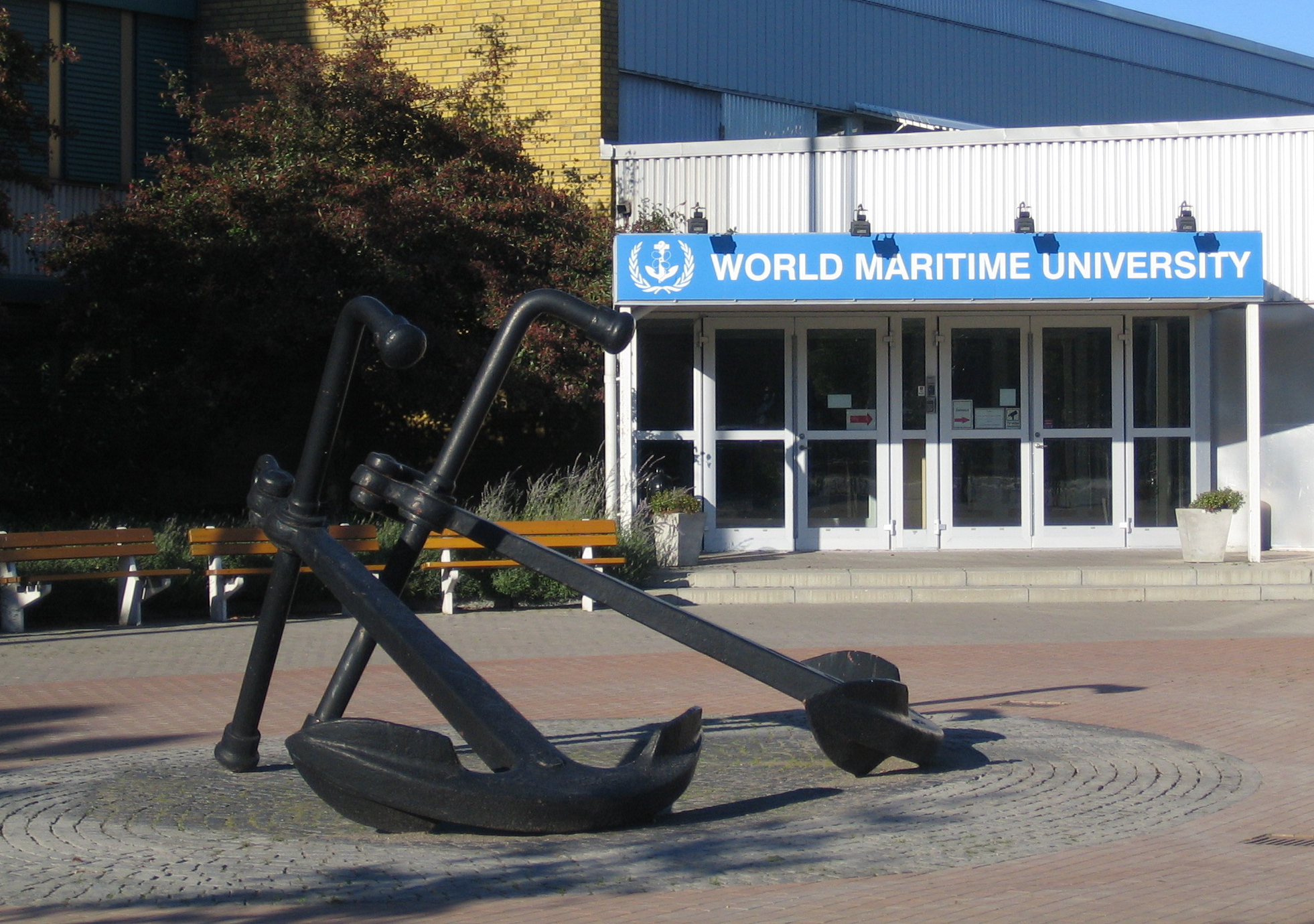 World Maritime University, Malmö, Sweden